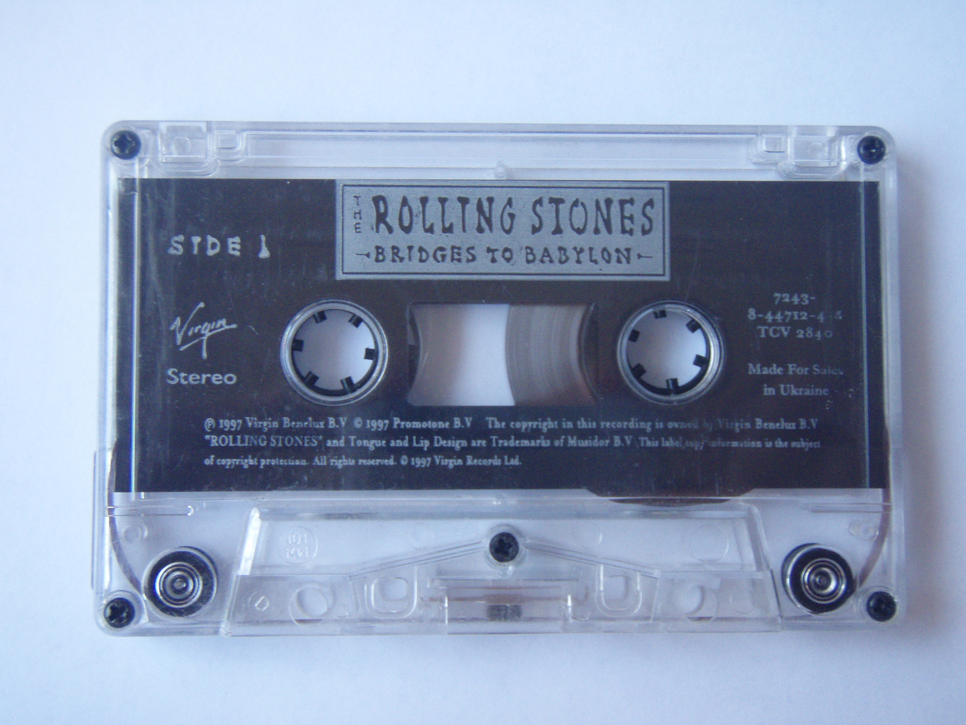 The Rolling Stones - Bridges to Babylon. Virgin Records Ltd. 1997 for Ukraine